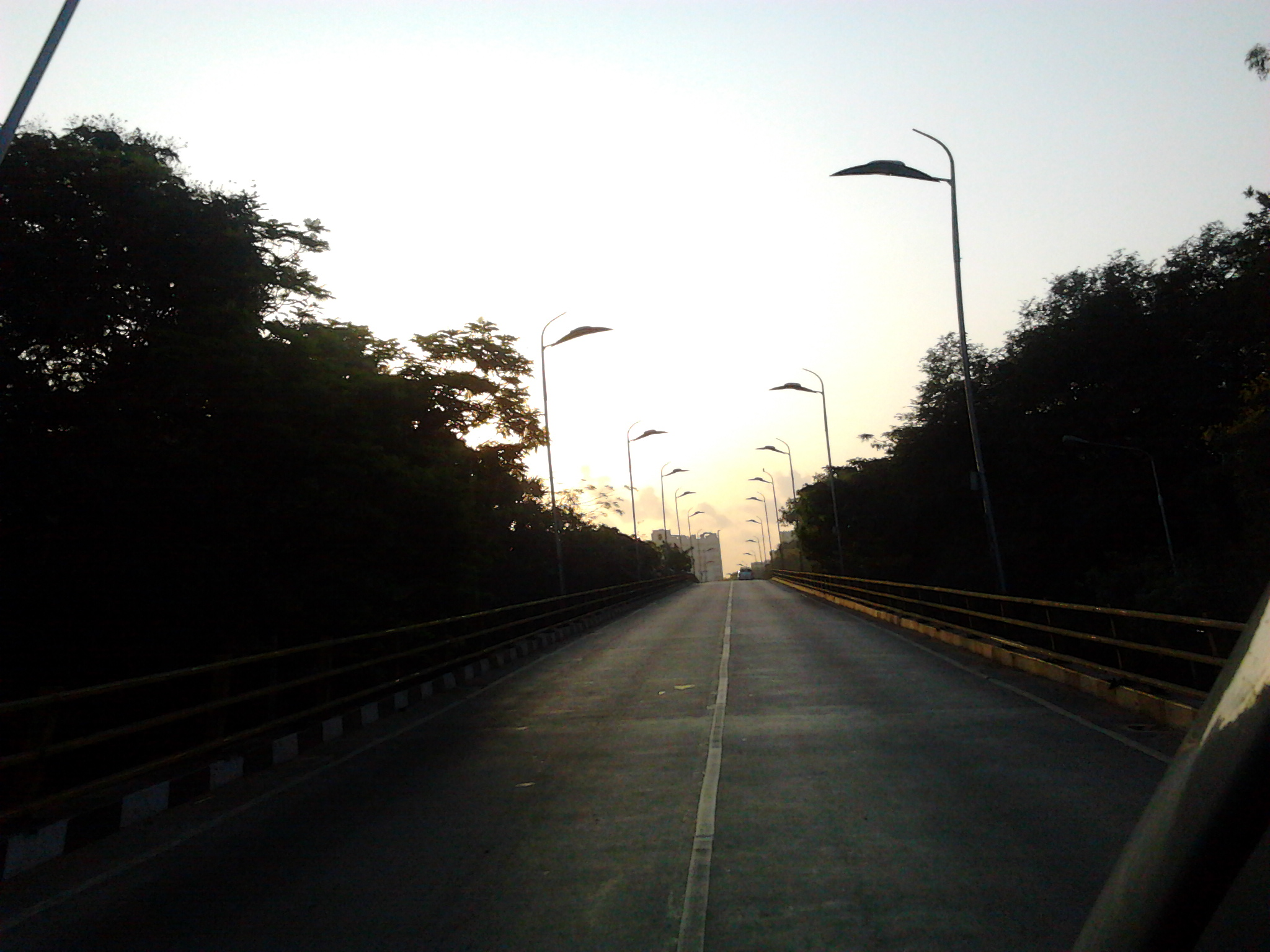 Photoed using Samsung Wave 525.